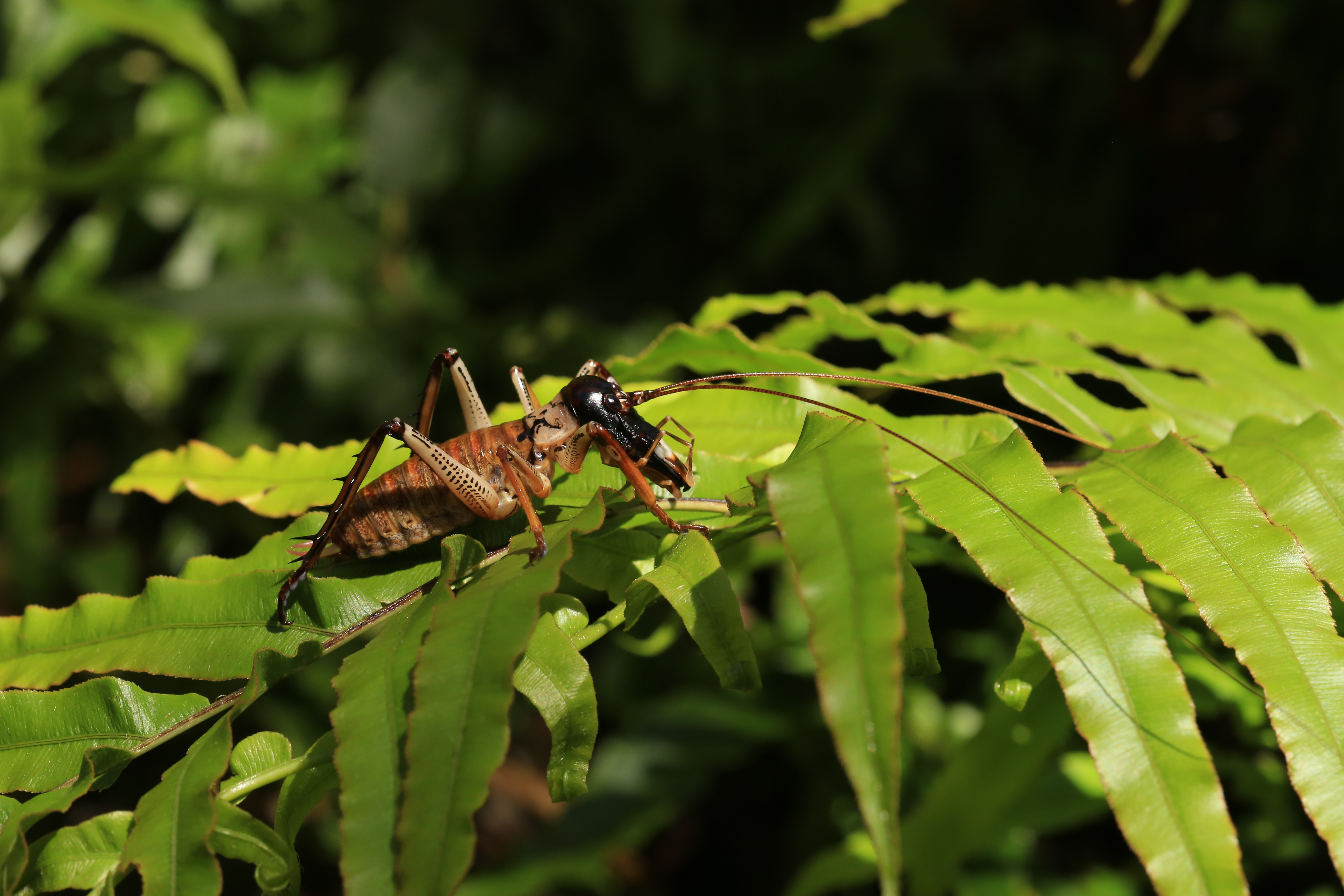 Side view of Auckland tree weta on a leaf.